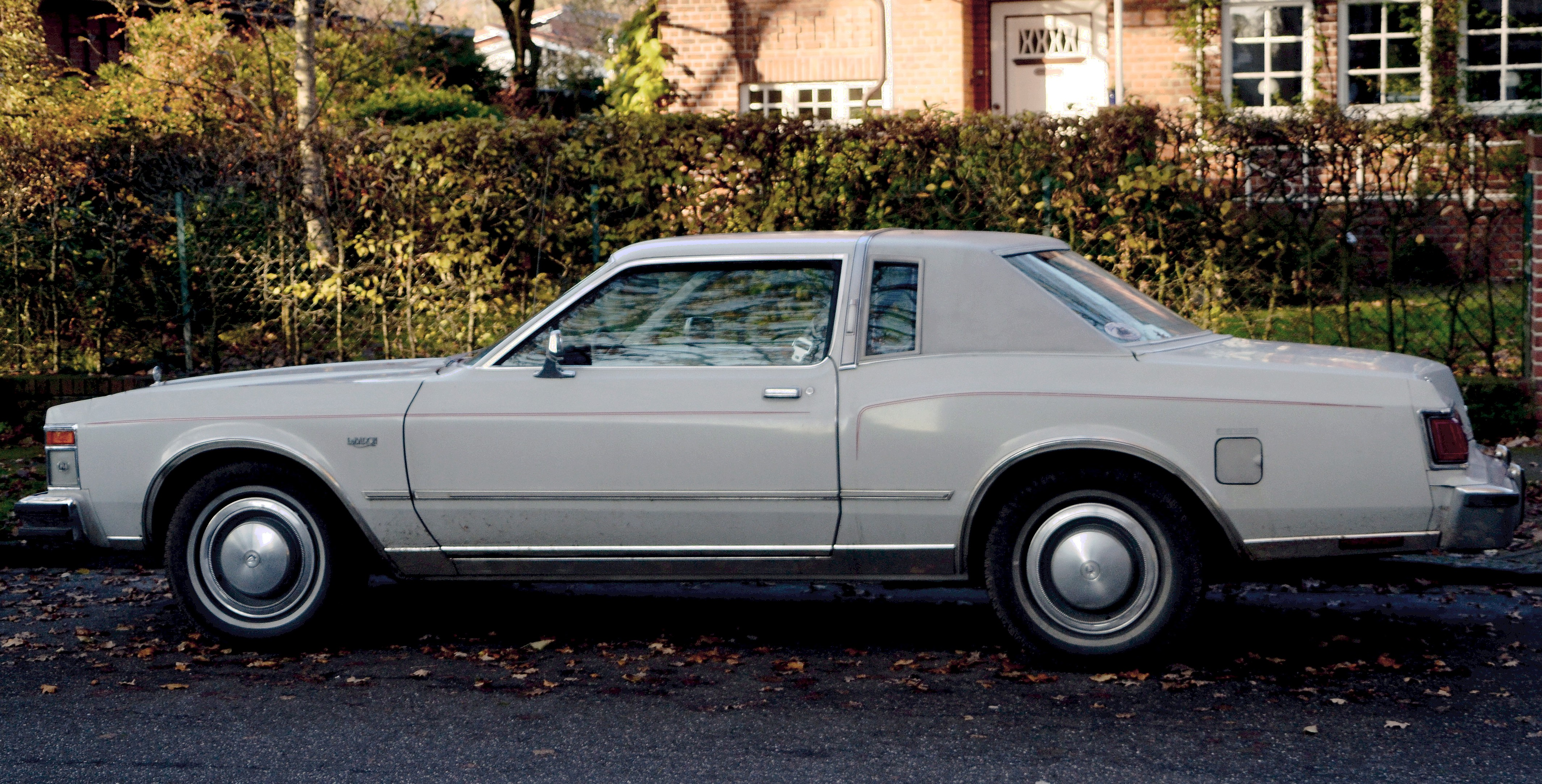 1979 Chrysler LeBaron (M-Body) Coupé